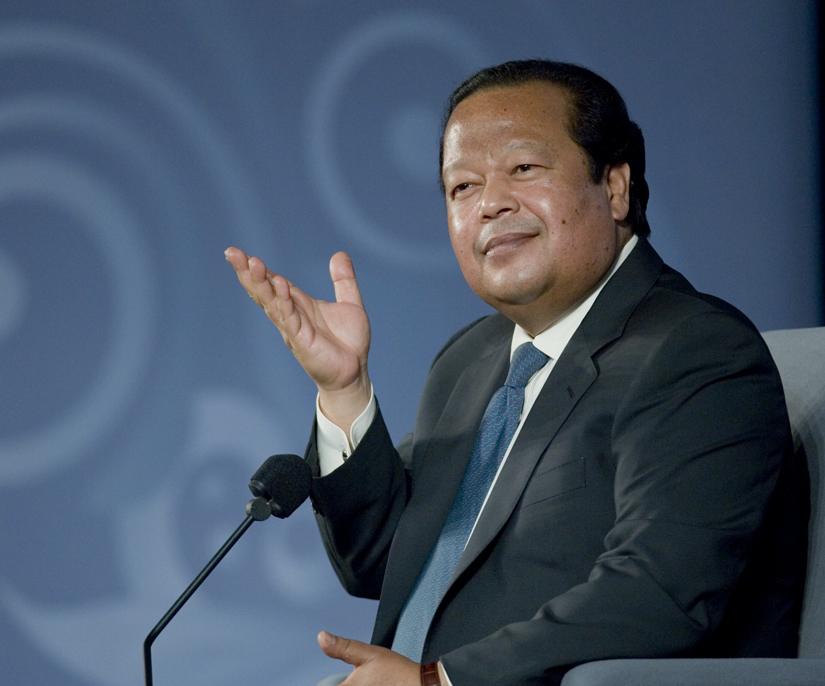 Prem Rawat - Lisbon, Portugal.